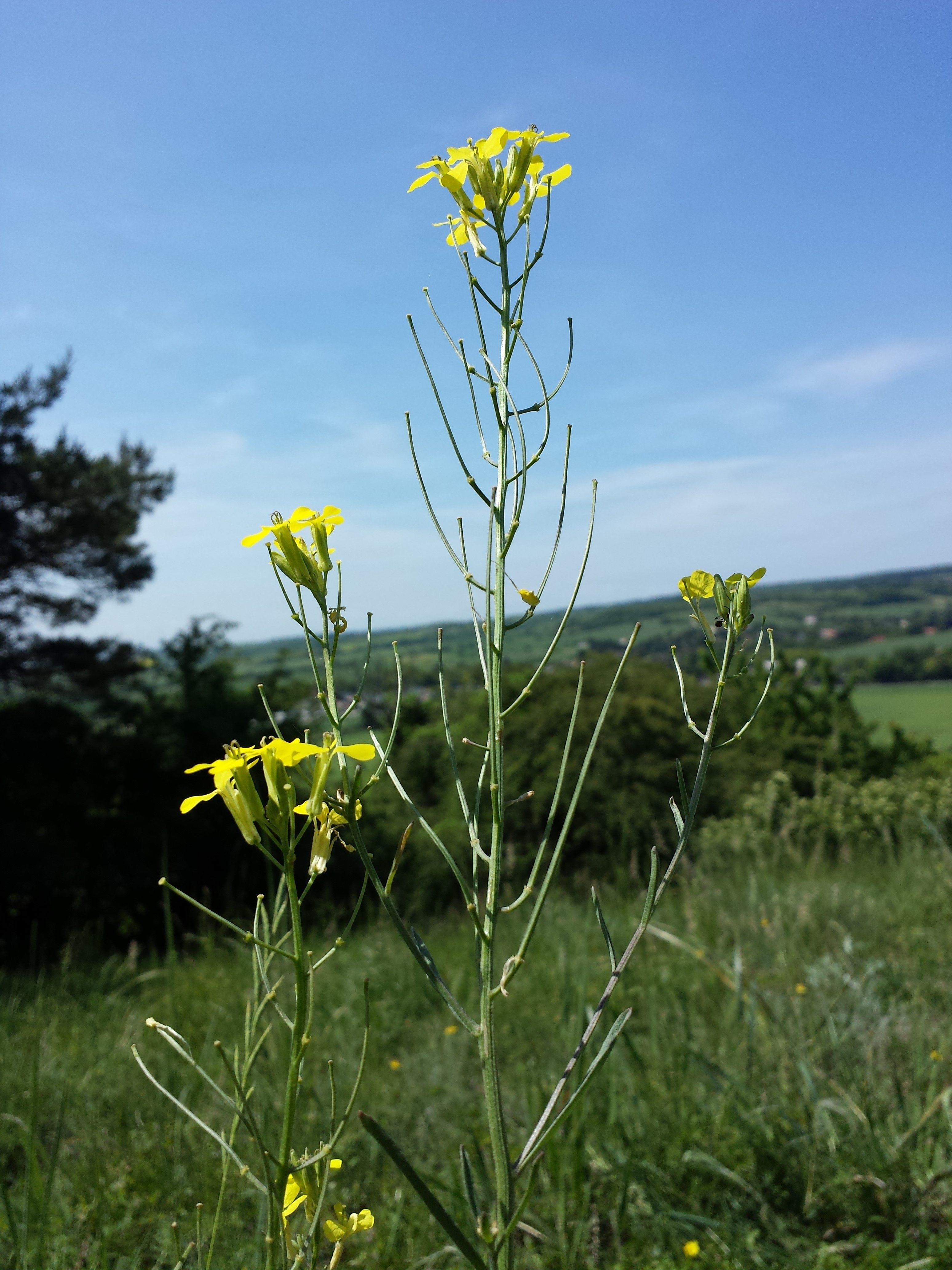 Inflorescence Taxonym: Erysimum diffusum agg. ss Fischer et al. EfÖLS 2008 ISBN 978-3-85474-187-9 Location: Haulesbergen, district Mistelbach, Lower Austria - ca. 200 m a.s.l. Habitat: dry grassland